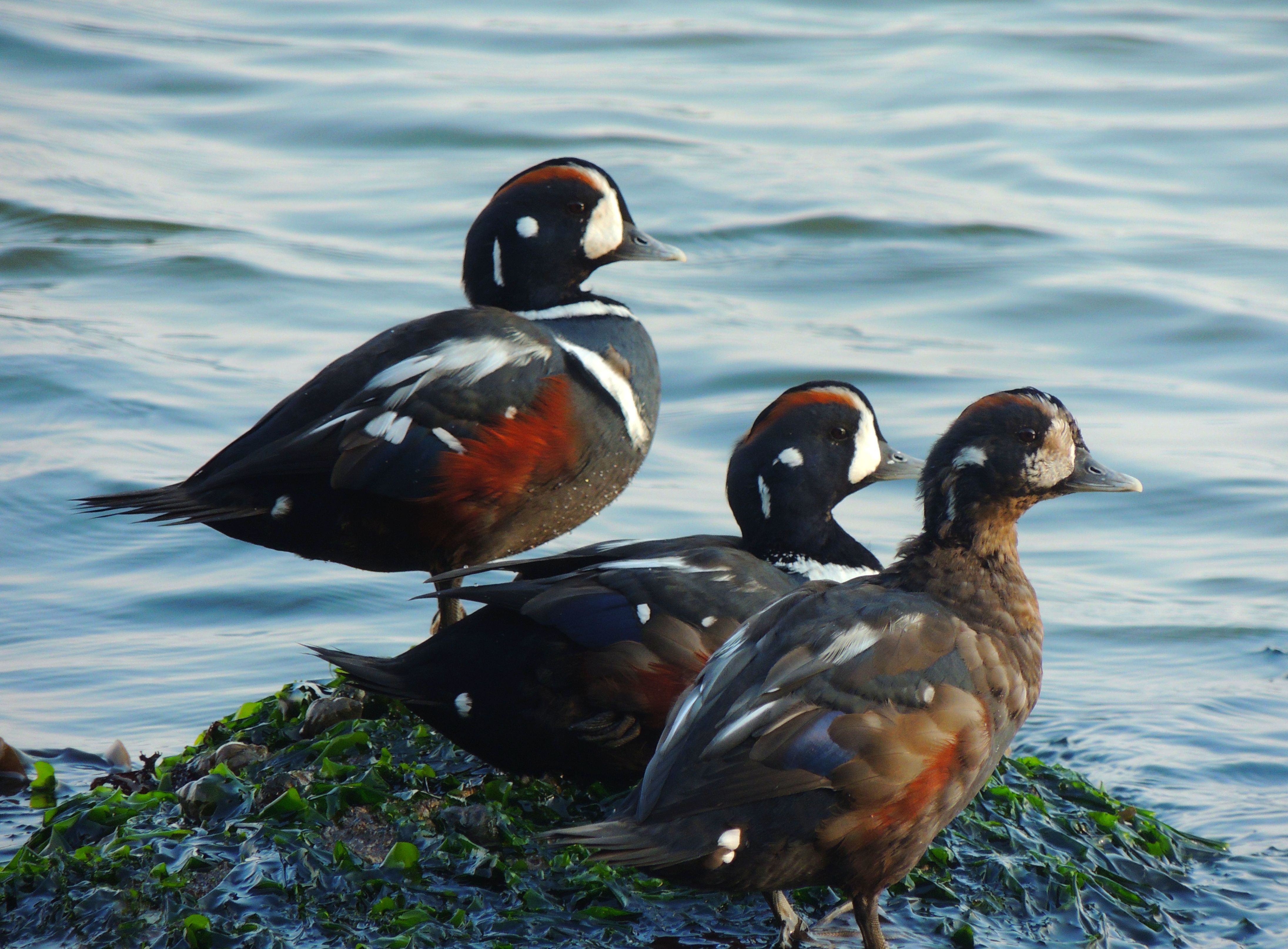 Harlequin Ducks at Diamond Point on the Miller Peninsula in Washington State.